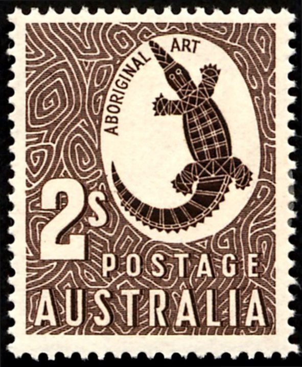 A postage stamp of Australia issued 1948